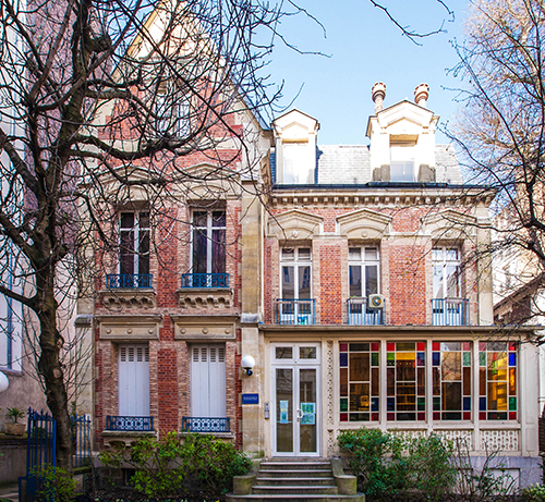 Private School in Paris